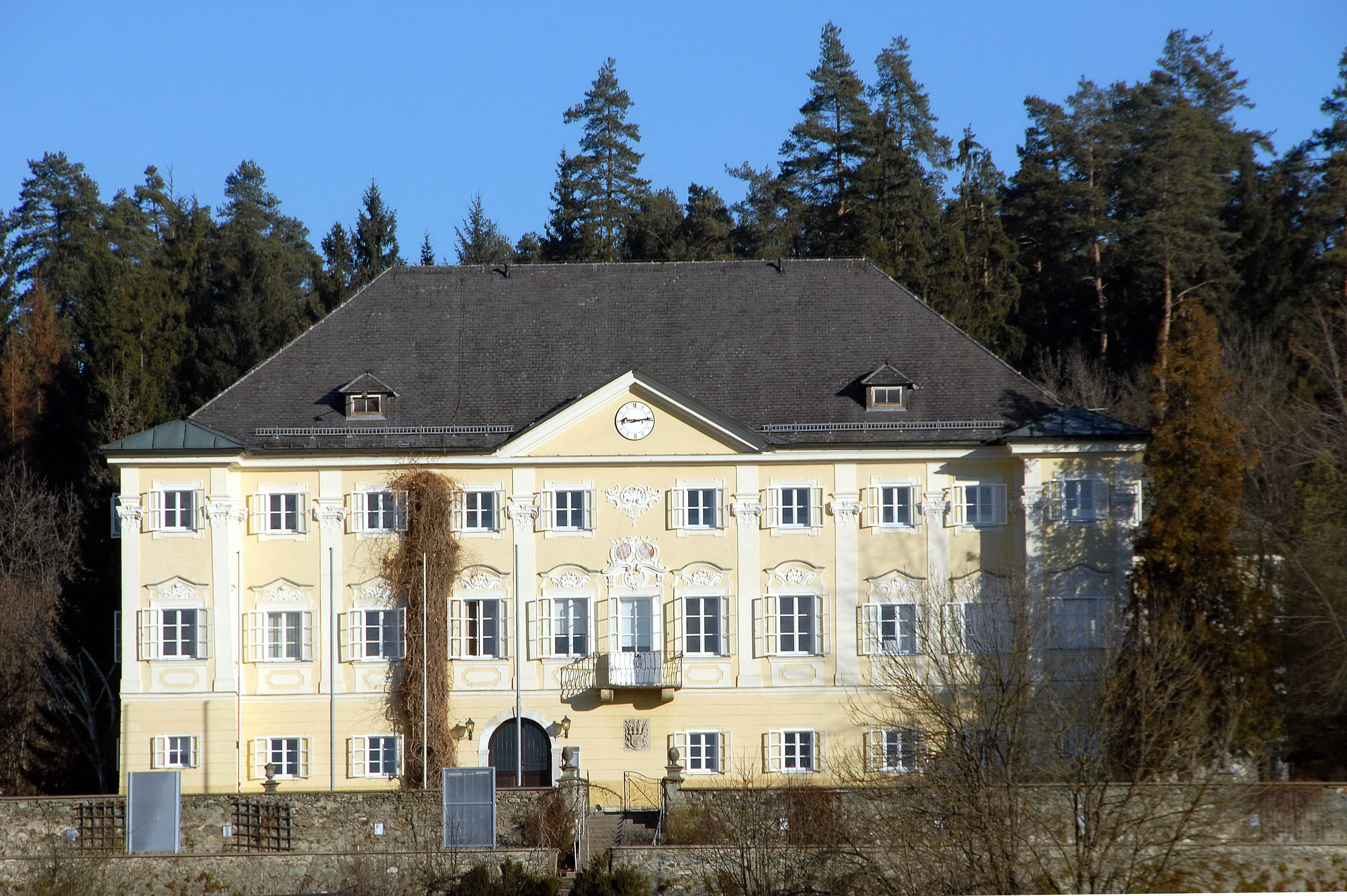 Castle Ehrenthal on Ehrental Street #119, 9th district Annabichl, municipality Klagenfurt on the Lake Woerth, Carinthia, Austria, EU